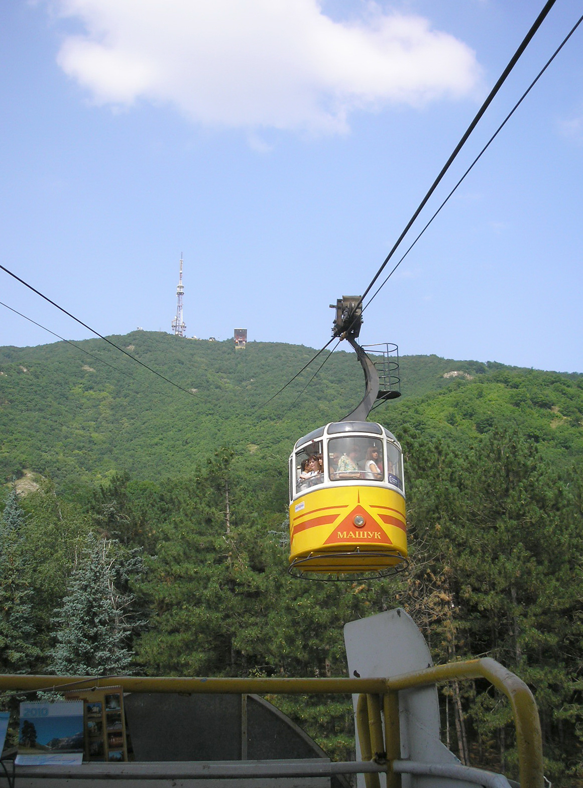 Cabelway to the top of Mashuk mountain. Pyatigorsk, Russia.